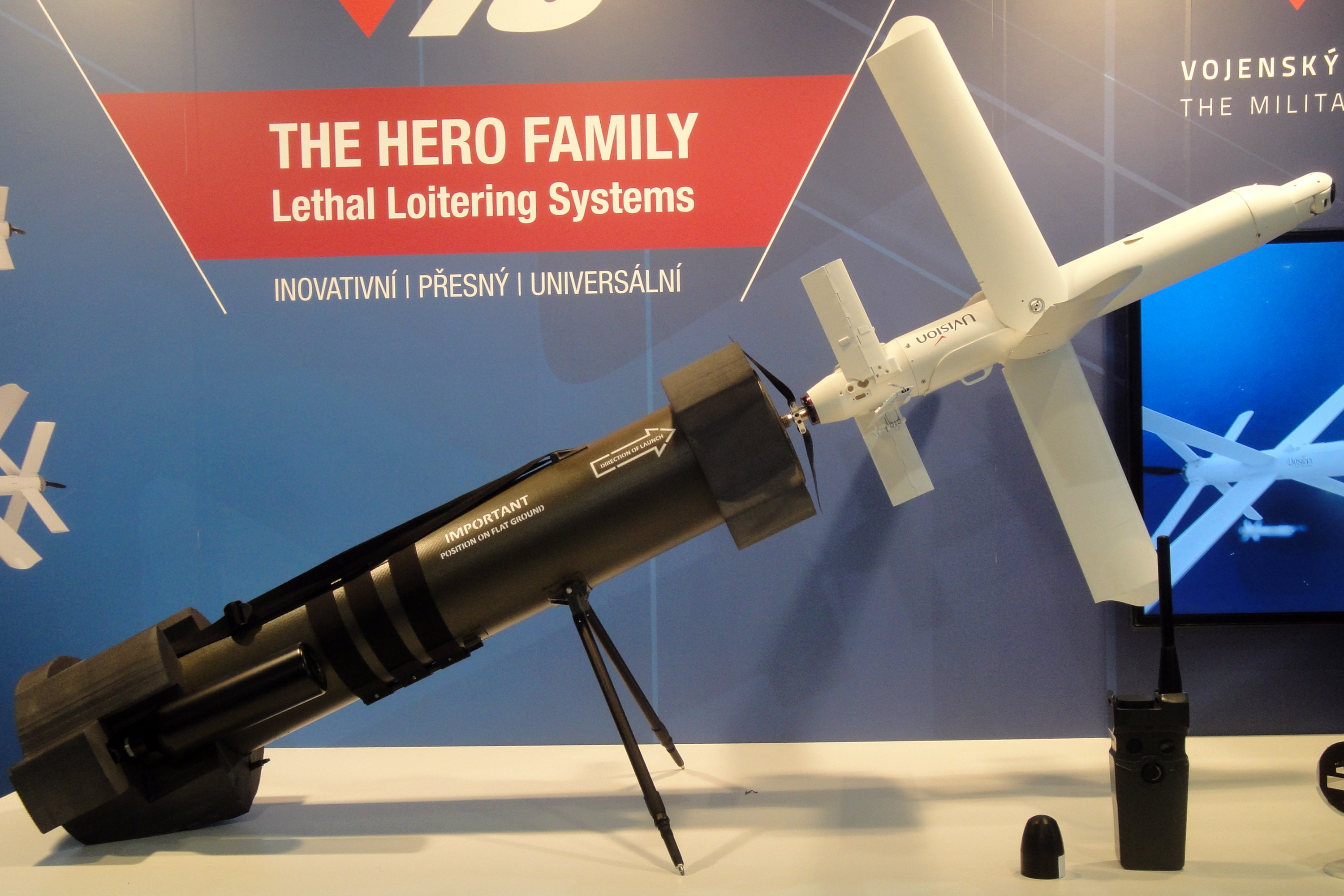 UVision Hero-30, loitering munition, IDET/PYROS/ISET 2019, Brno